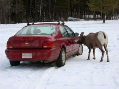 Bighorn sheep licking the salt from a car on a parking lot near Maligne Canyon, Japer National Park, Canada.